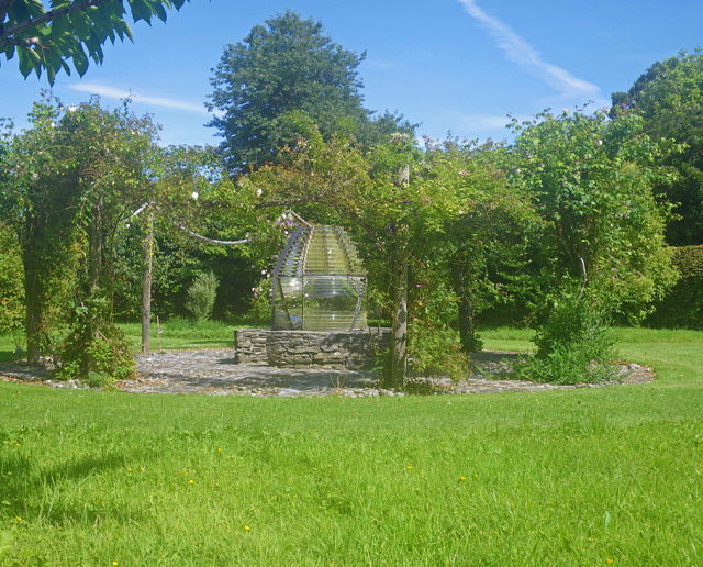 Lighthouse folly in Colonsay House Gardens This garden feature was constructed as a folly using a large salvage element of an old lighthouse.